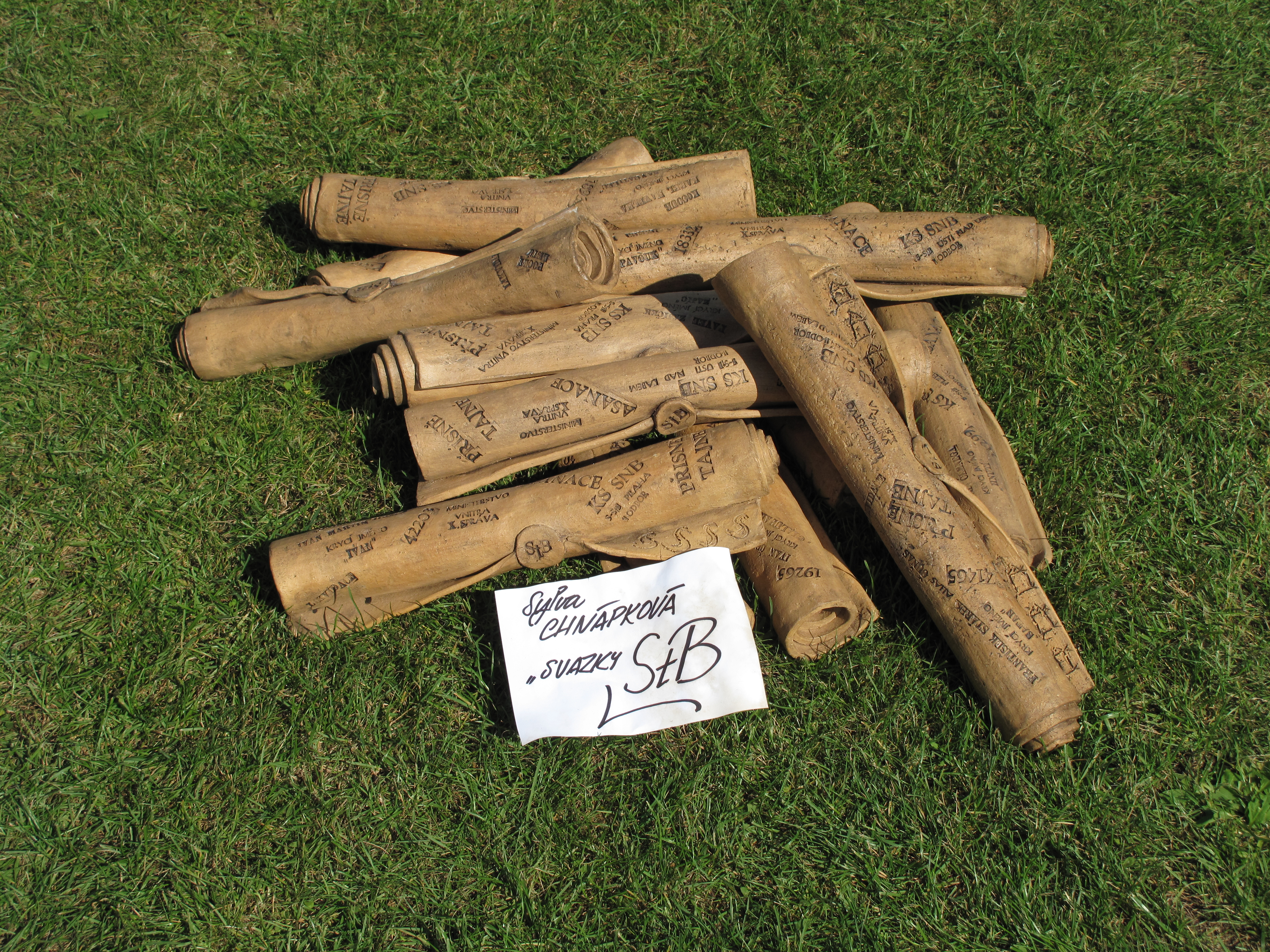 Sylva Chňapková: StB sheaves on the pottery fair in Beroun in 2011, Czech Republic.